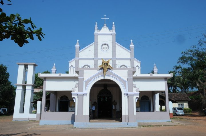 Most Holy Redeemer Church (Beltangady) Old